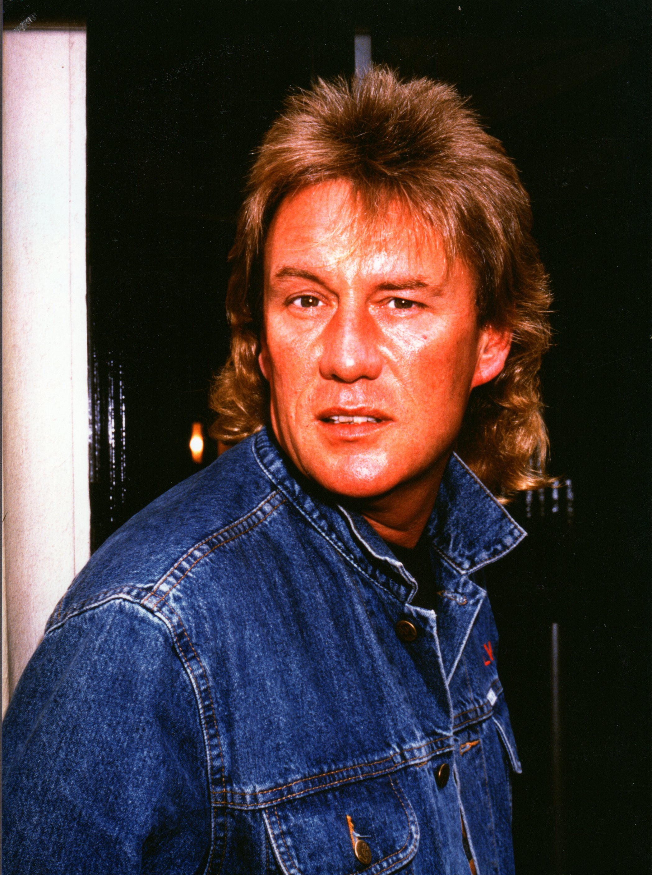 promo about time TYA